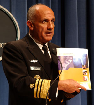 Surgeon General of the United States Richard Carmona